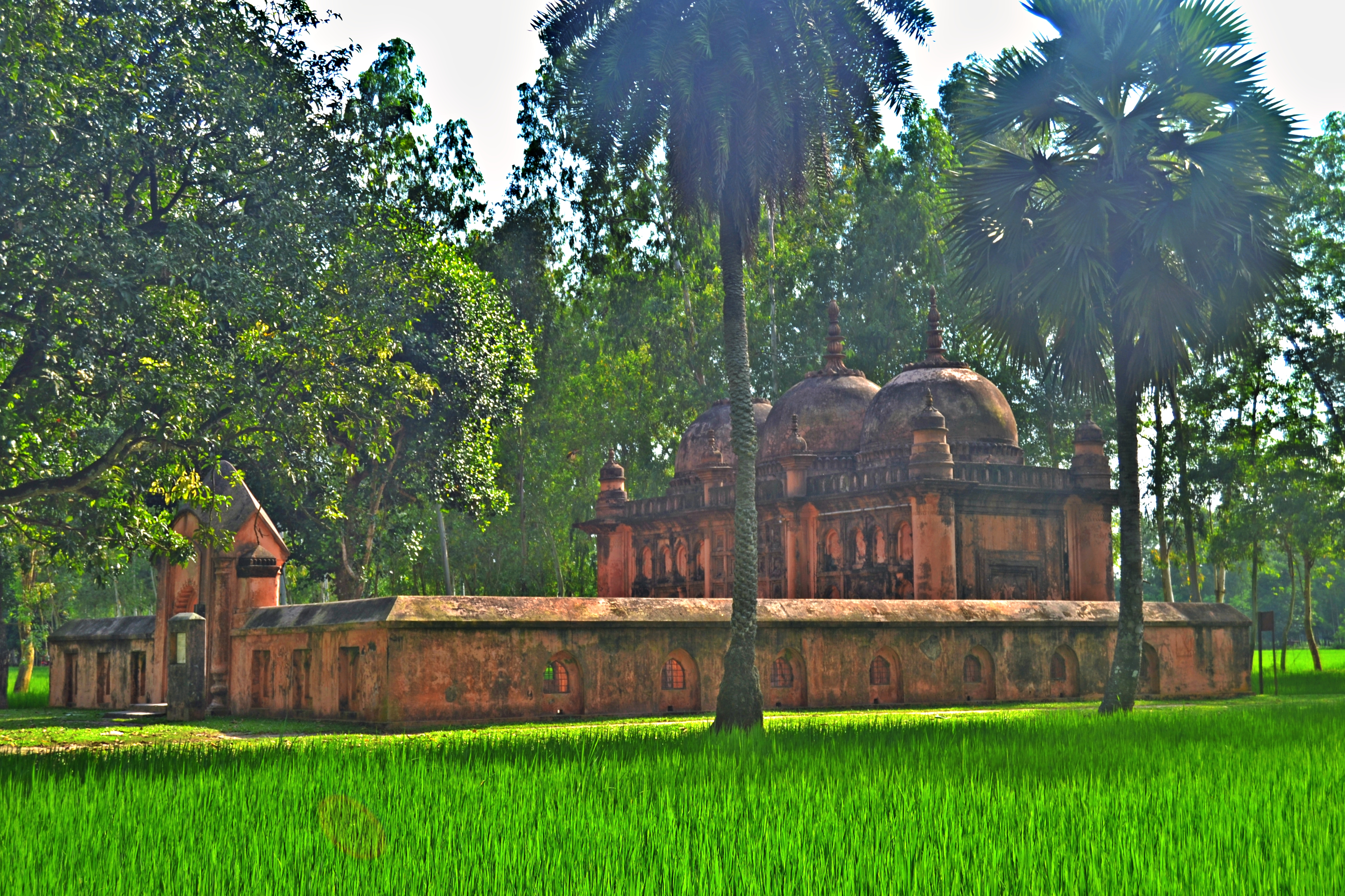 Mithapukur Bara Mosque